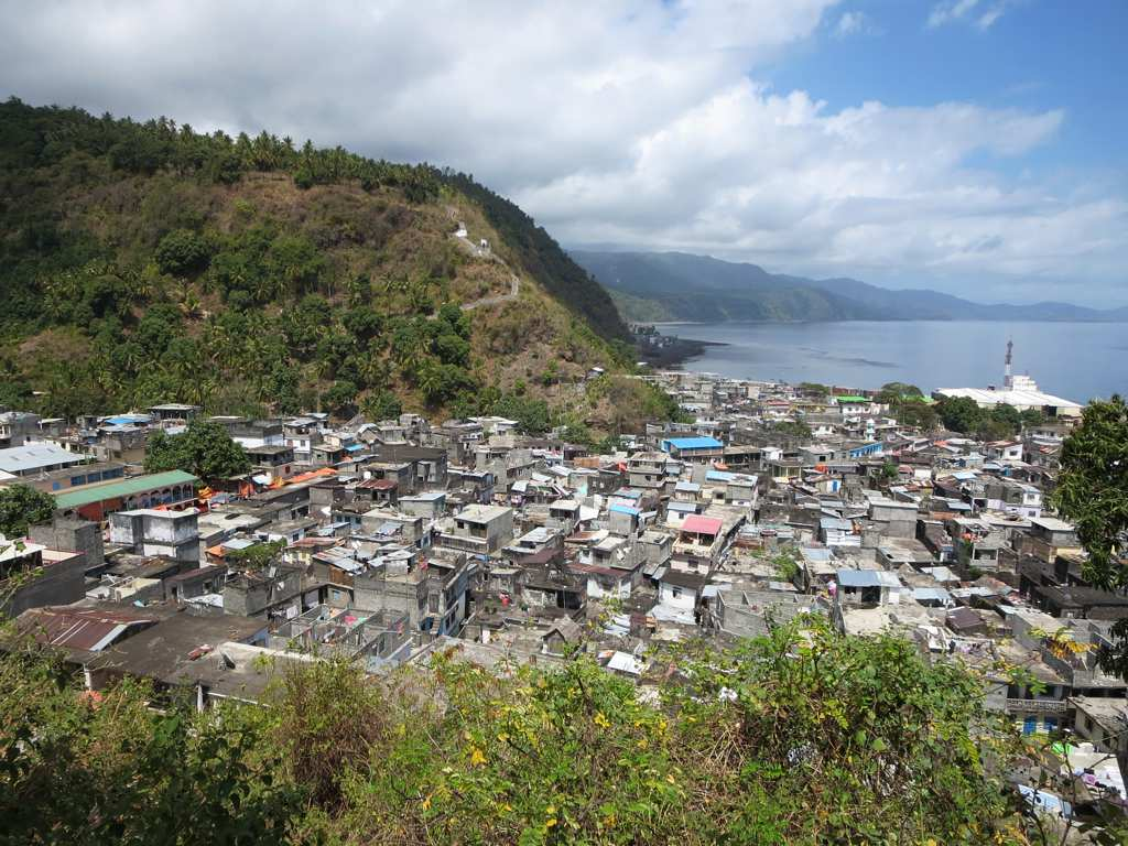 Mutsamudu, the main city of Anjouan Island, Union of the Comoros, is squeezed between the Indian Ocean and steep slopes.